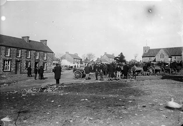 1 negative : glass, dry plate, b&w ; 12 x 16.5 cm.